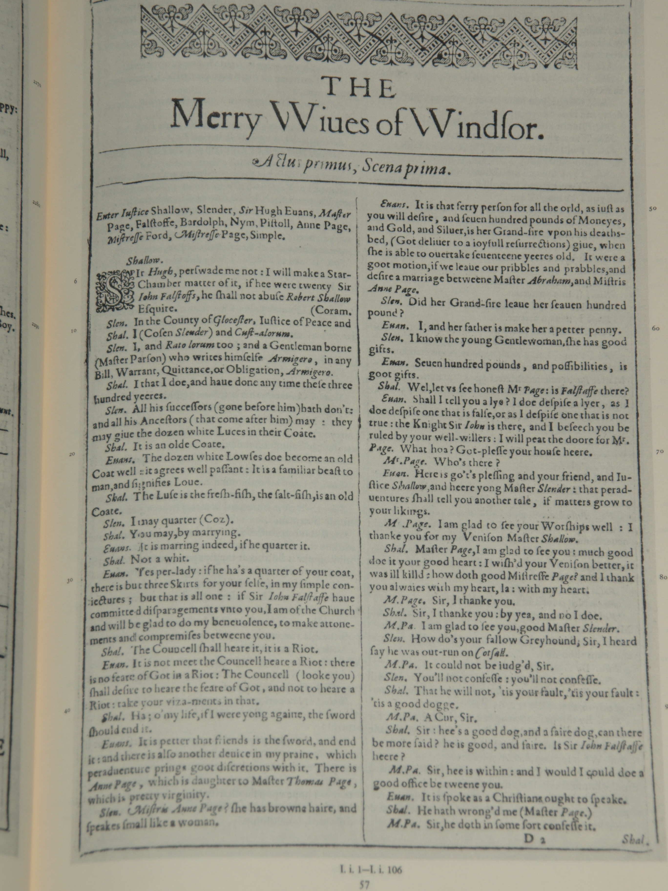 Photo of the first page of The Merry Wives of Windsor from a facsimile edition of the First Folio of Shakespeare's plays, published in 1623